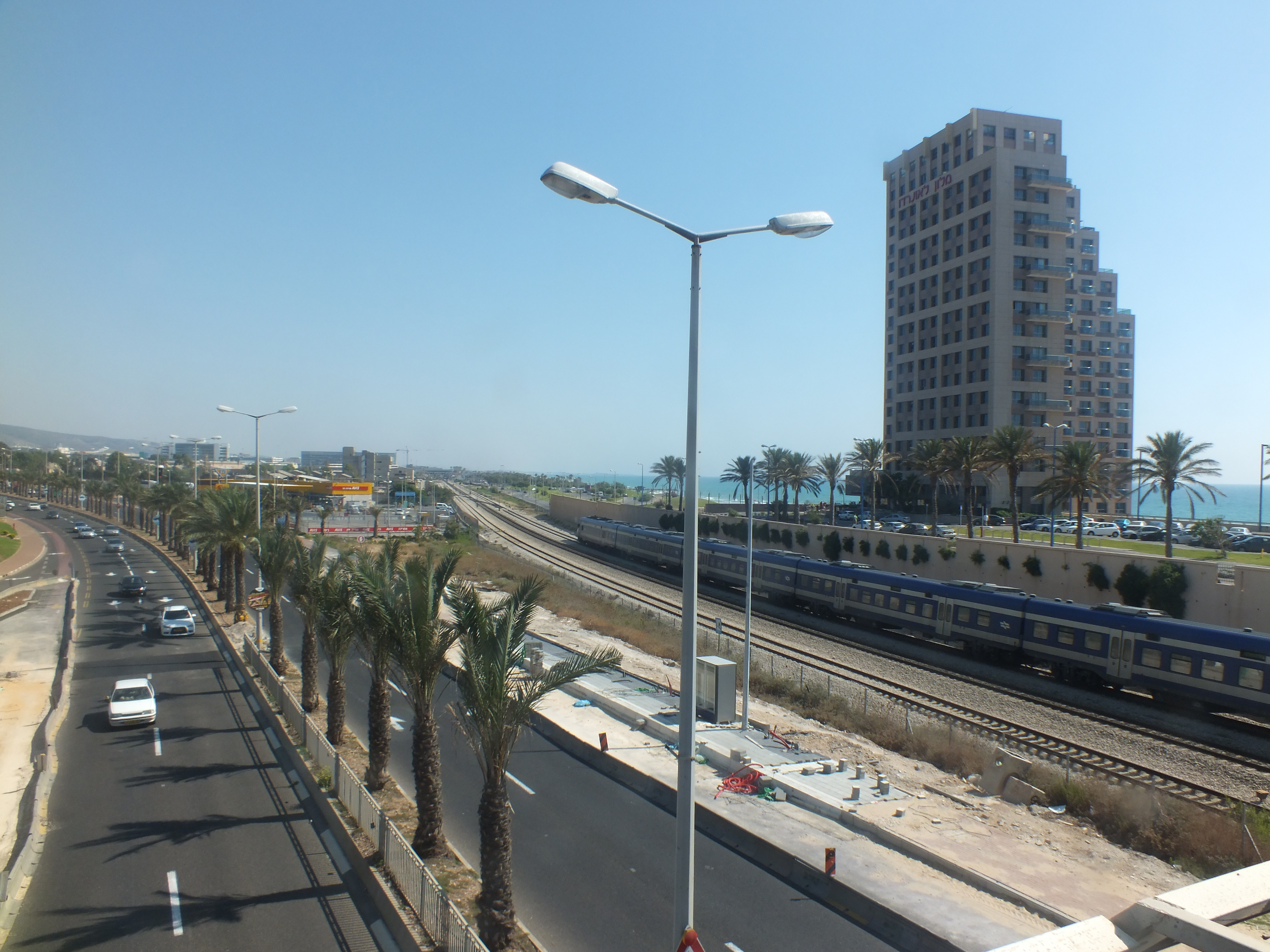 This isn't Los Angeles, this is West Haifa!